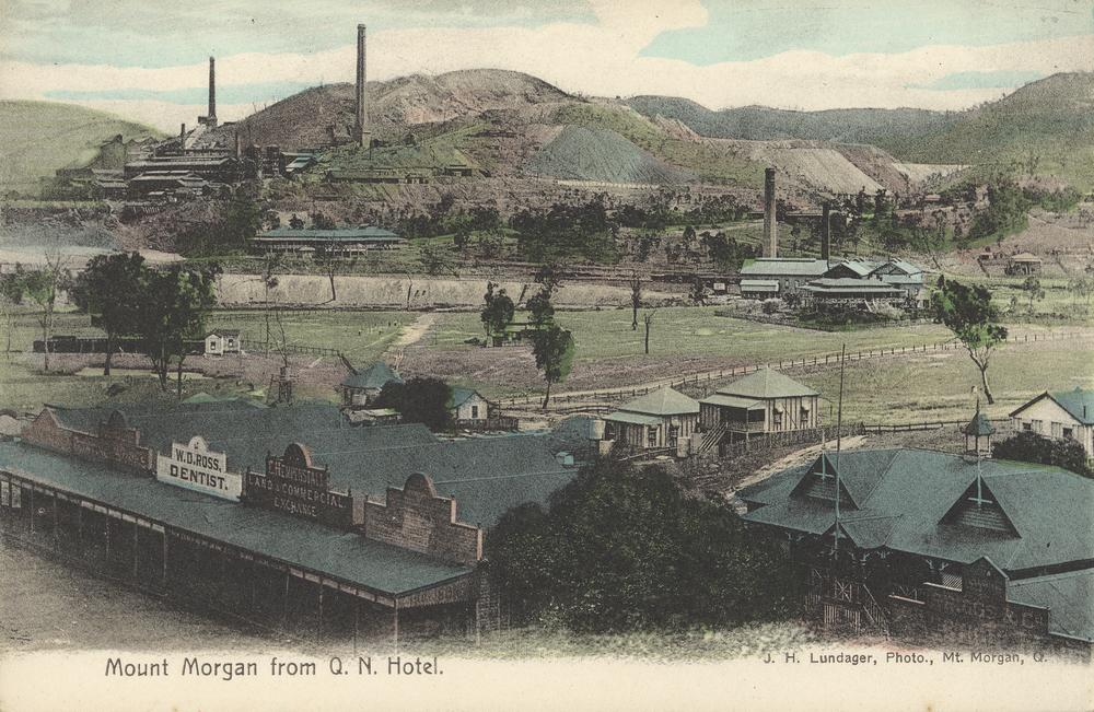 View of the town of Mount Morgan and the mine beyond. View from the Queensland National Hotel. Other businesses and resident's housing. The Mount Morgan mine opened in 1882 and the Mount Morgan Gold Mining Co. Ltd. went into liquidation in 1927.